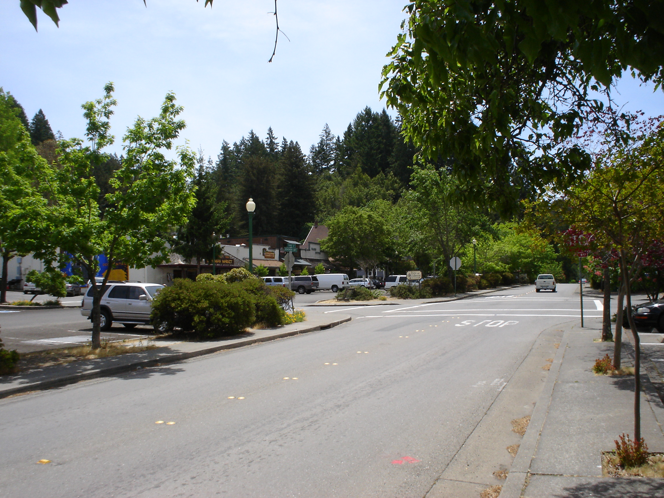 Occidental, California